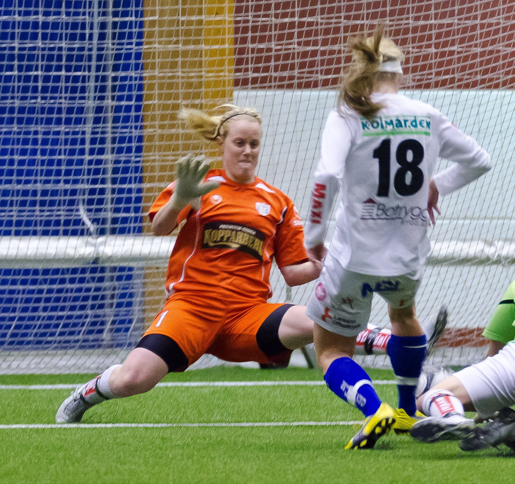 Swedish goalkeeper Kristin Hammarström making a save in a 2012 pre-season friendly versus Linköpings FC.